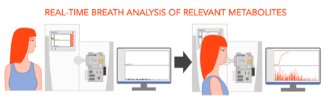 Diagram of real-time breath analysis using SESI-MS